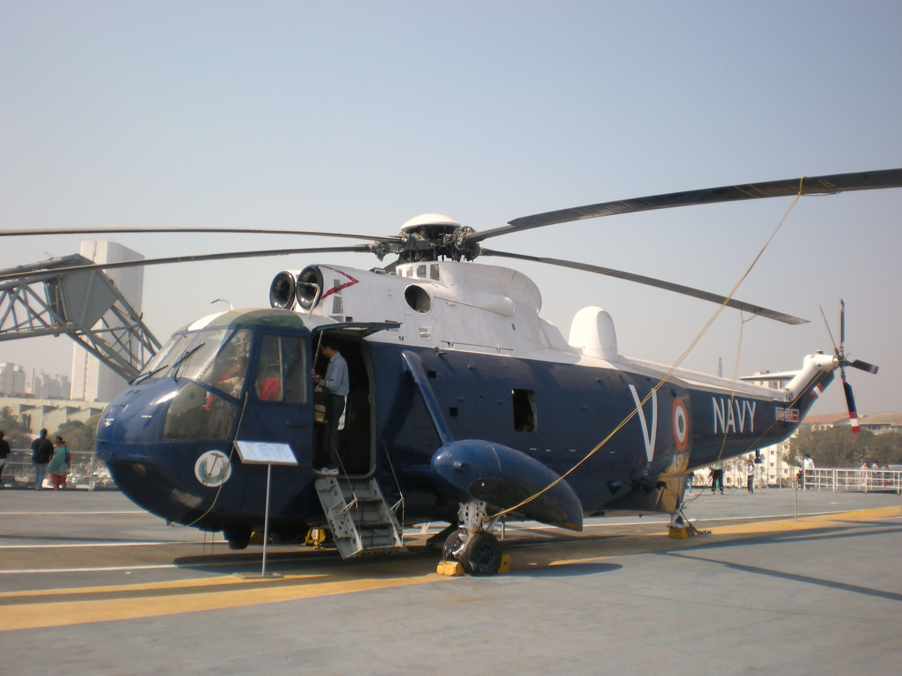 on board INS Vikrant